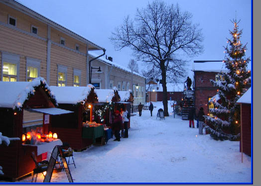 Taitokortteli in Joensuu, Christmas market 2008